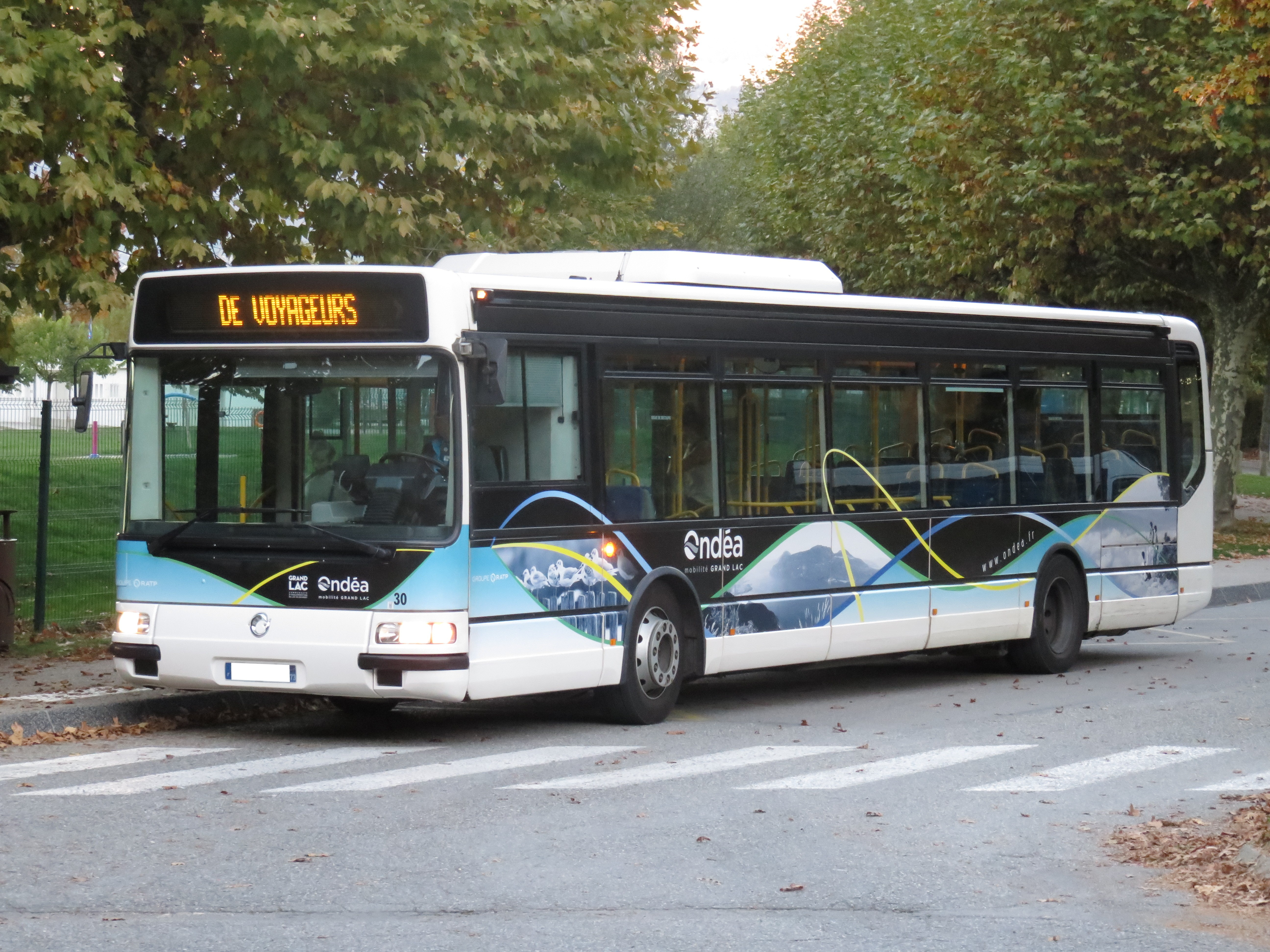 An Irisbus Agora Line (n°30 of the French agglomeration community Grand Lac) running on Ondéa’s line 1 — Clos Fleuri, La Motte-Servolex↔Plage, Le Bourget-du-Lac — at the call Plage (Le Bourget-du-Lac, France) — on October 17, 2017.